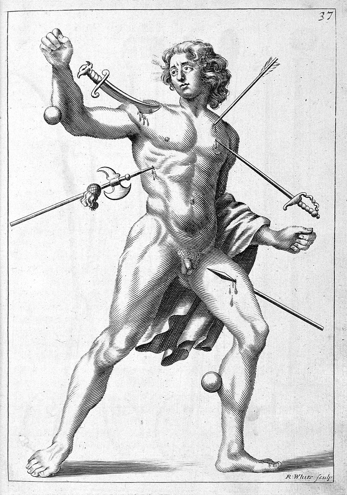 'Wound man' Rare Books Keywords: wounds and injuries, 1678; John Browne; Robert White